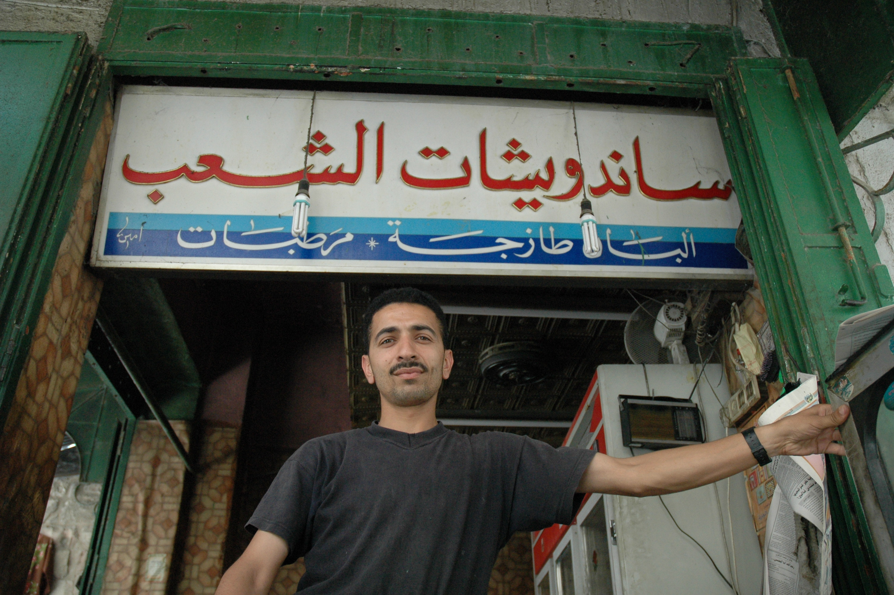 Life in the West Bank. Hebron: This man, working selling falafel in the old city, asked me to take his picture. He was determined not to be forced out. The sign says: "People's Sandwiches. Fresh dairy, dressings."